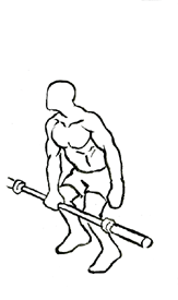 an exercise most of the body